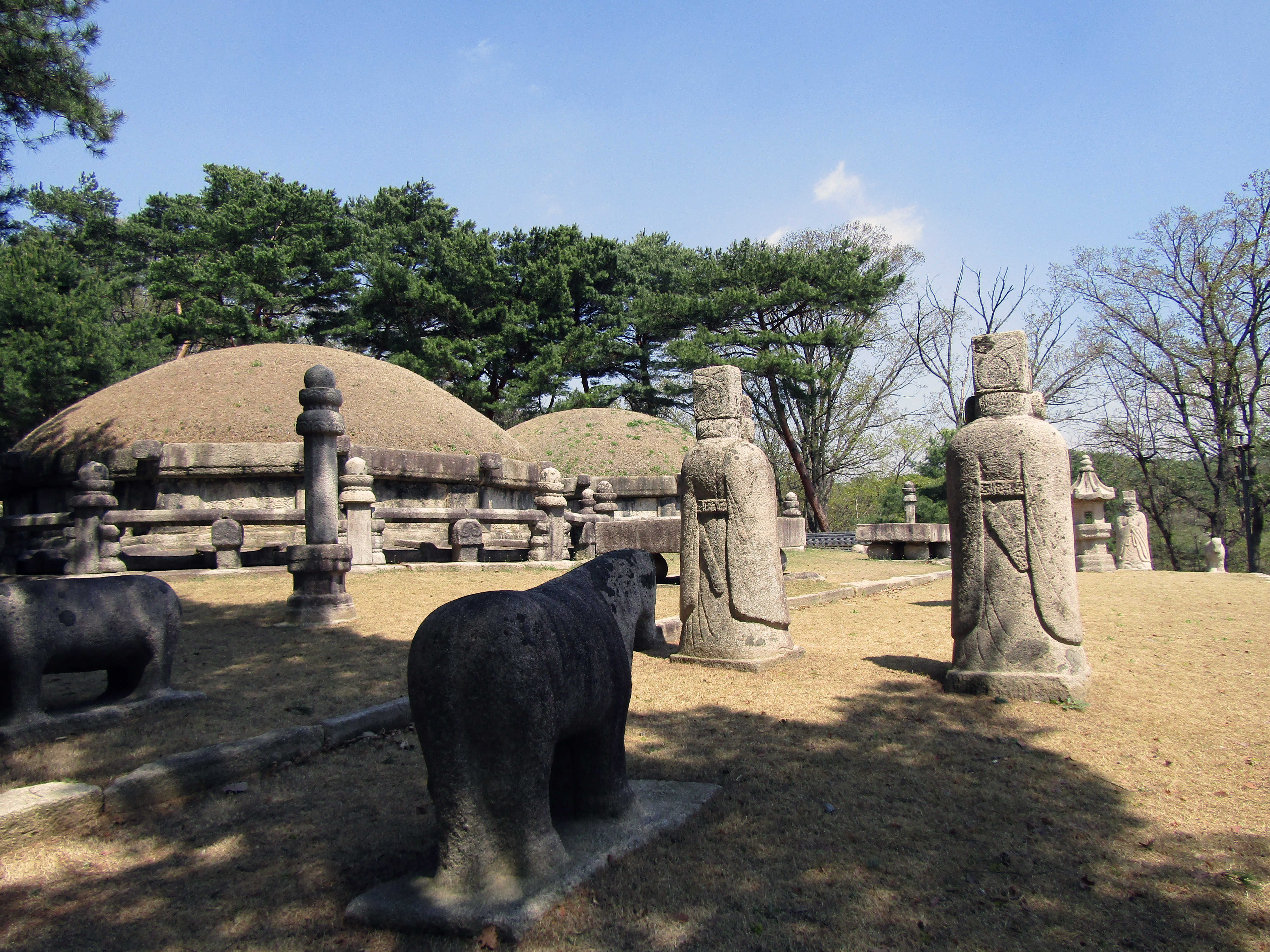 The royal tombs of Taejong of Joseon, Heolleung.